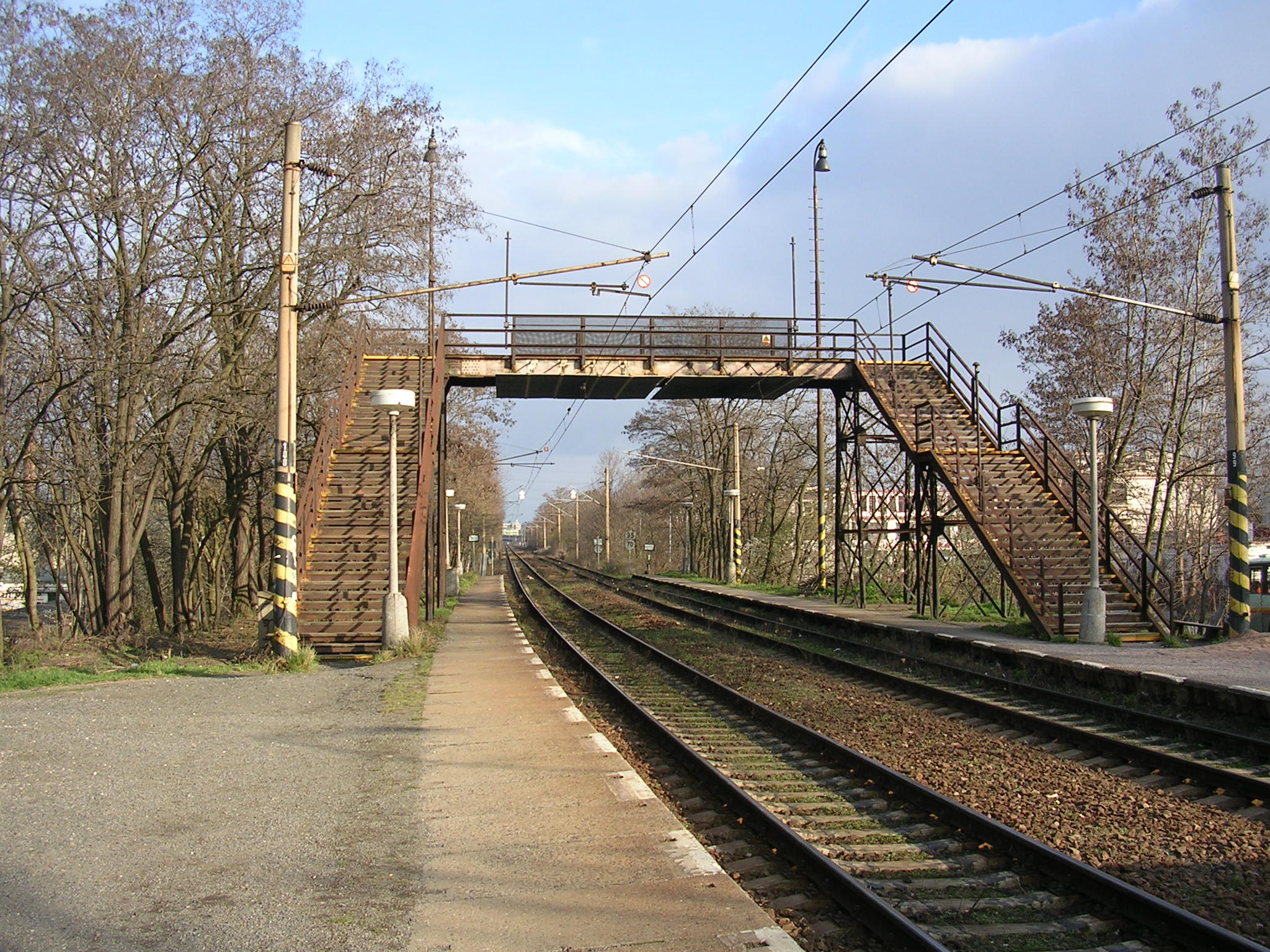 Train stop Praha-Strašnice zastávka, the Czech Republic.